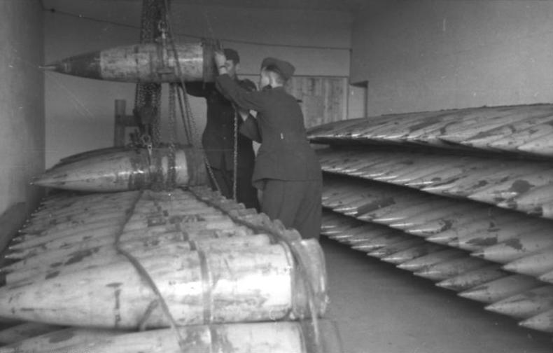 Norway, Lapland, Finland.- soldiers lifted shells in the ammunition room of a german coastal battery, PK 681